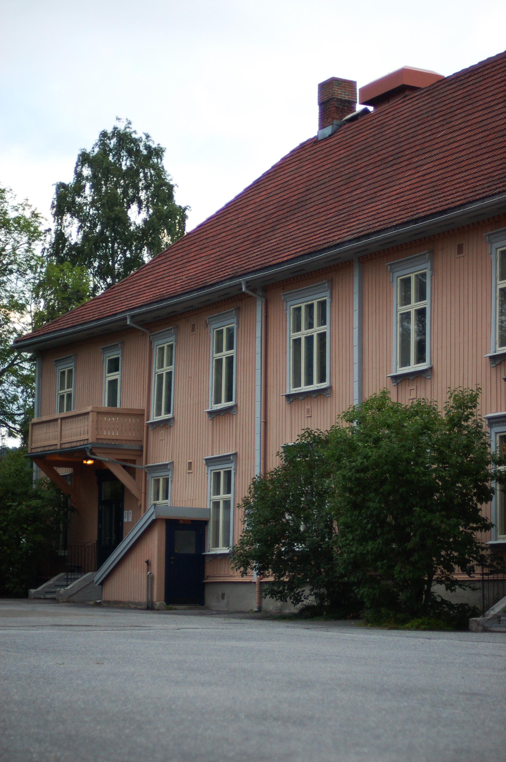 Fredheim school Kongsberg Norway